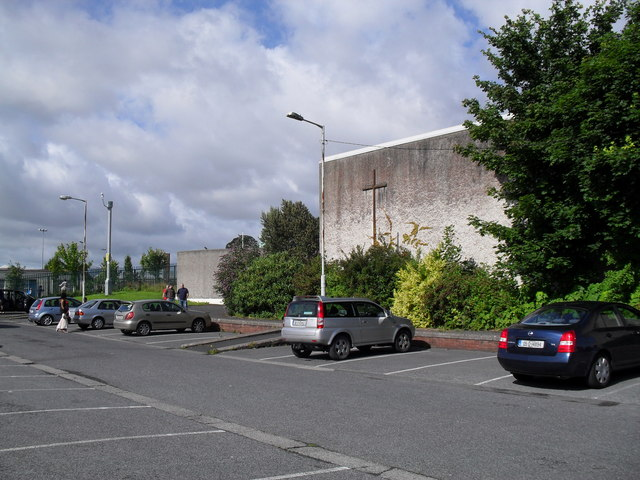 St. Patrick's Chapel, Corduff, near to Ballycorden, Blachardstown, Abbotstown, Whitestown and Mulhurddart, Dublin, Ireland. Saint Patrick's Roman Catholic Church in Corduff, Blanchardstown, Dublin 15. Located off Blackcourt Avenue.